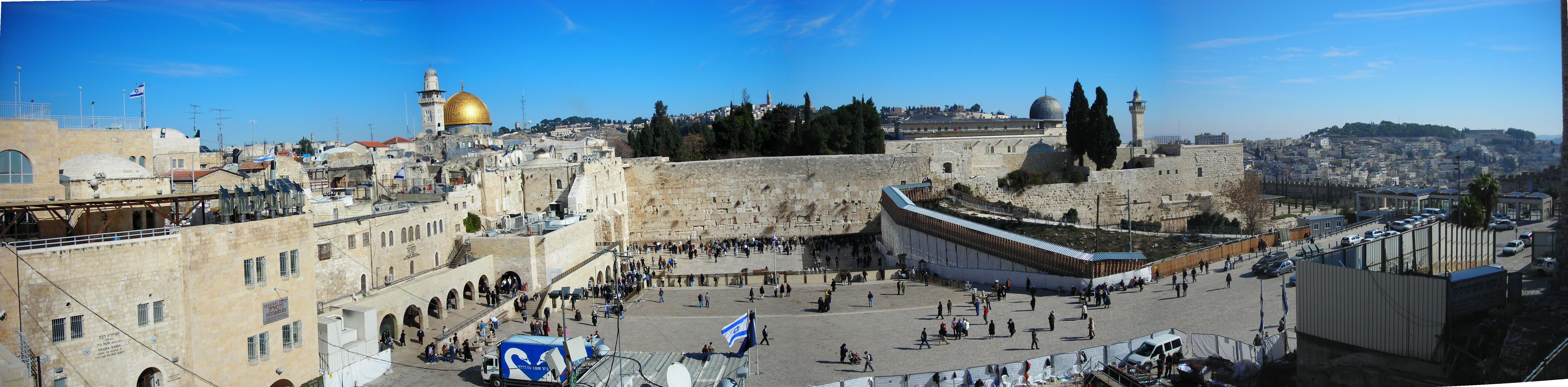 Panormic view of the Temple Mount in Jerusalem